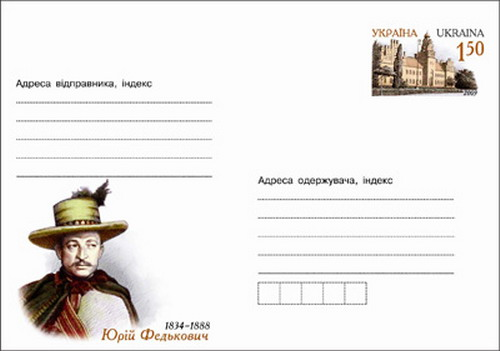 Ukraine postal stationery envelope "Yuriy Fedkovych. 1834-1888." The imprinted stamp depicts the building of the Chernivtsi National University im.Yu.Fedkovicha the text: "Ukraine UKRAINA 2009." Face value 1.50 UAH. Artist George Varkach.